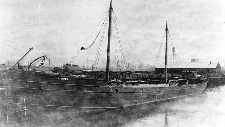 The barge Seneca, prior to her service in the United States Navy as .